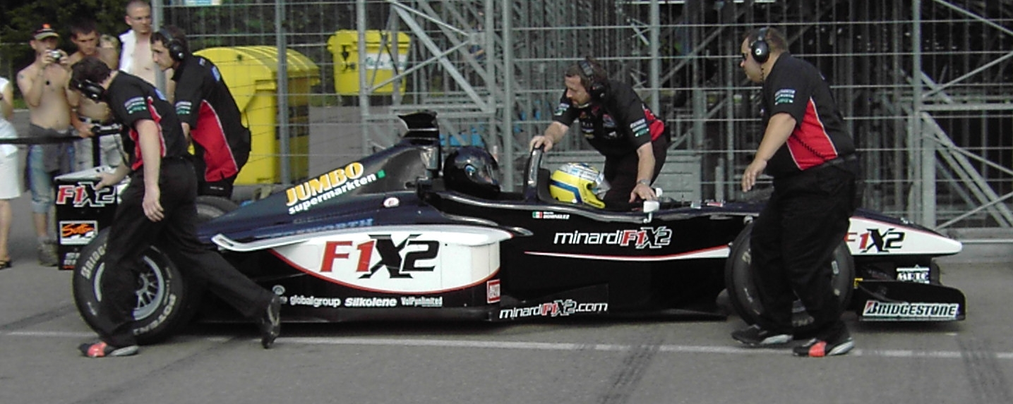 Minardi F1X2 "Two-Seater" at 2007 ChampCar Race in Zolder (Belgium)